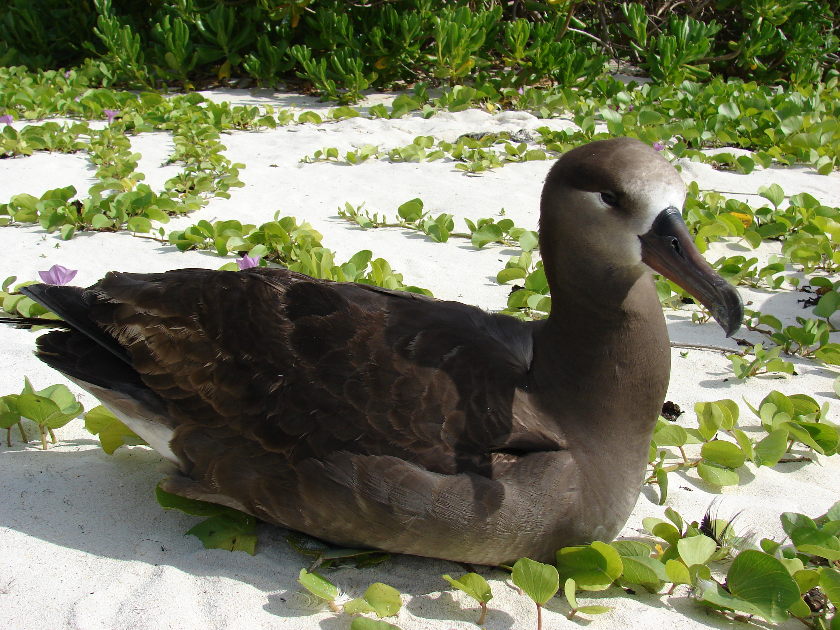 Ipomoea pes-caprae subsp. brasiliensis (habit with black footed albatross). Location: Midway Atoll, Rusty Bucket Sand Island